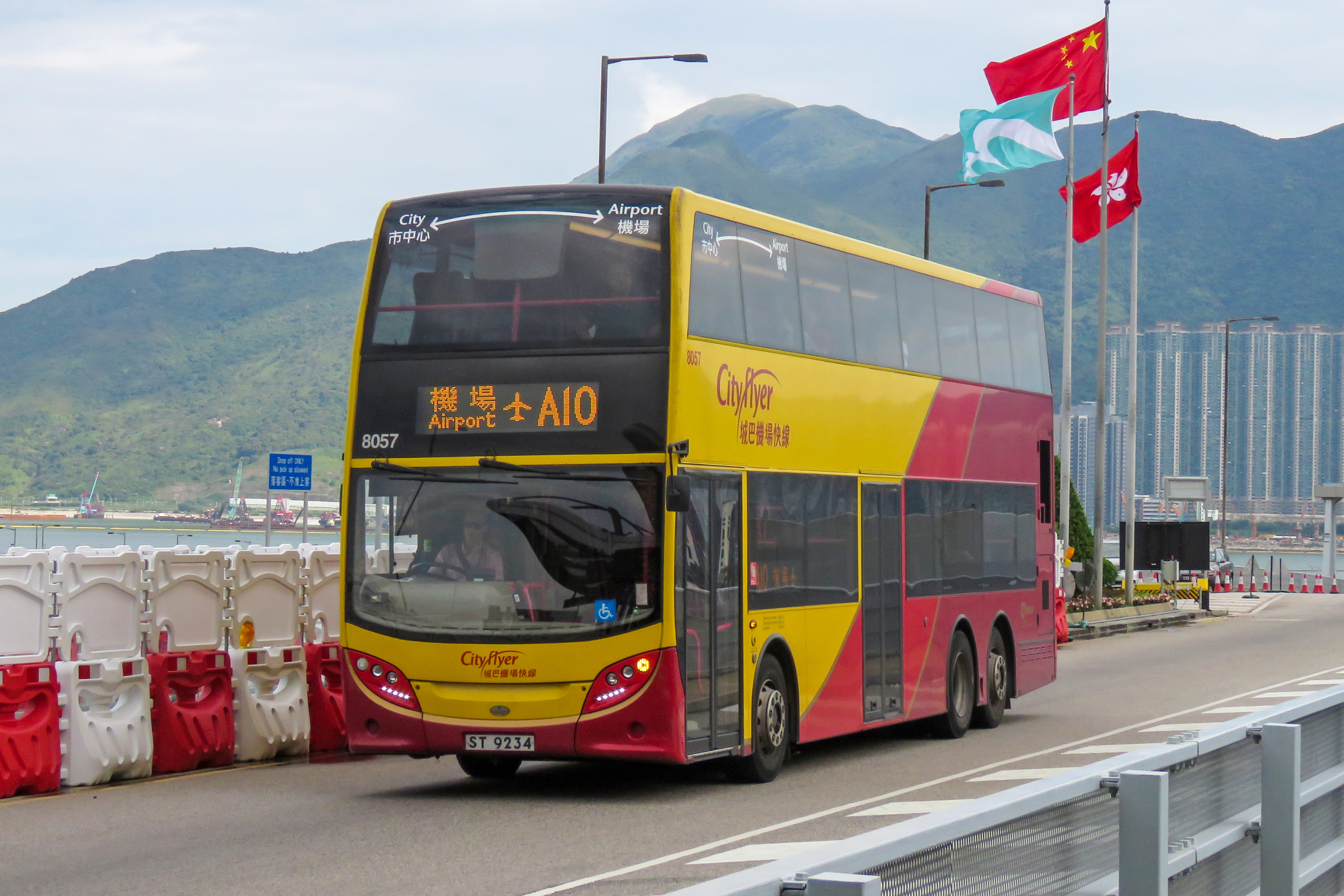 Full flags! The flags of China, Hong Kong SAR and Airport Authority Hong Kong are visible, making for a nice background.